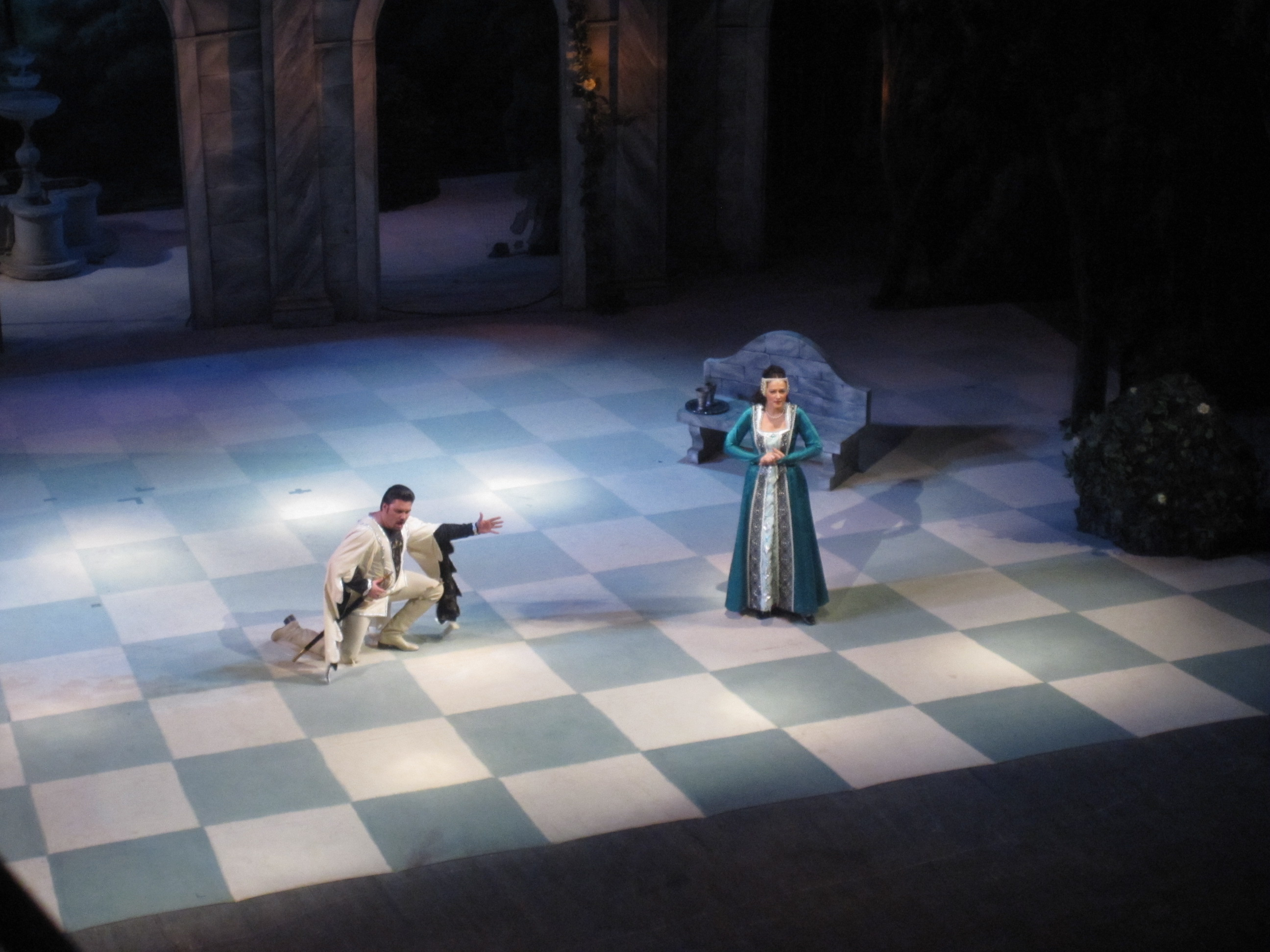 Tchaikovsky's opera "Iolanta". Mikhailovsky Theatre performance. Saint-Petersburg, Russia.